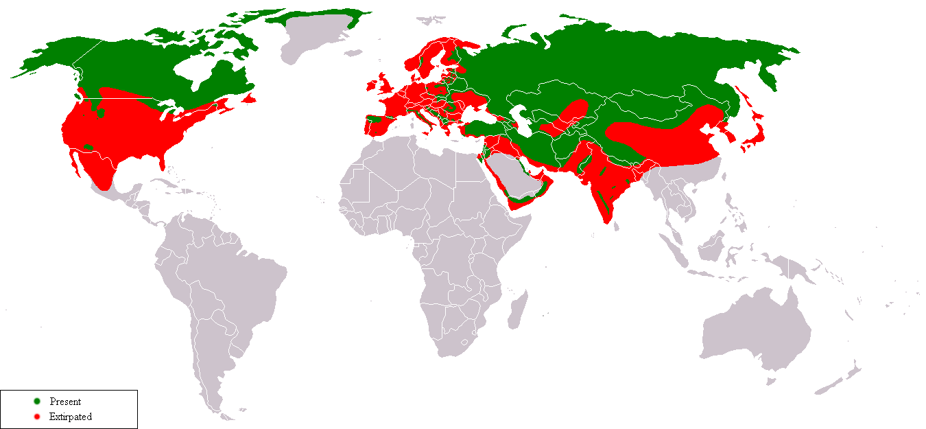 Distribution of the grey wolf (Canis lupus), (2003). Present Extirpated